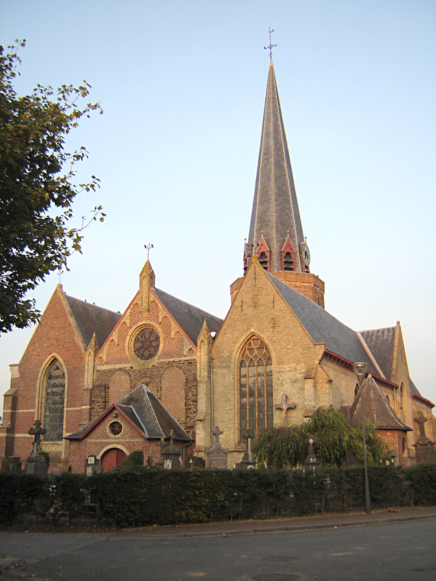 Church of Saint Bavo in Watou. Watou, Poperinge, West Flanders, Belgium